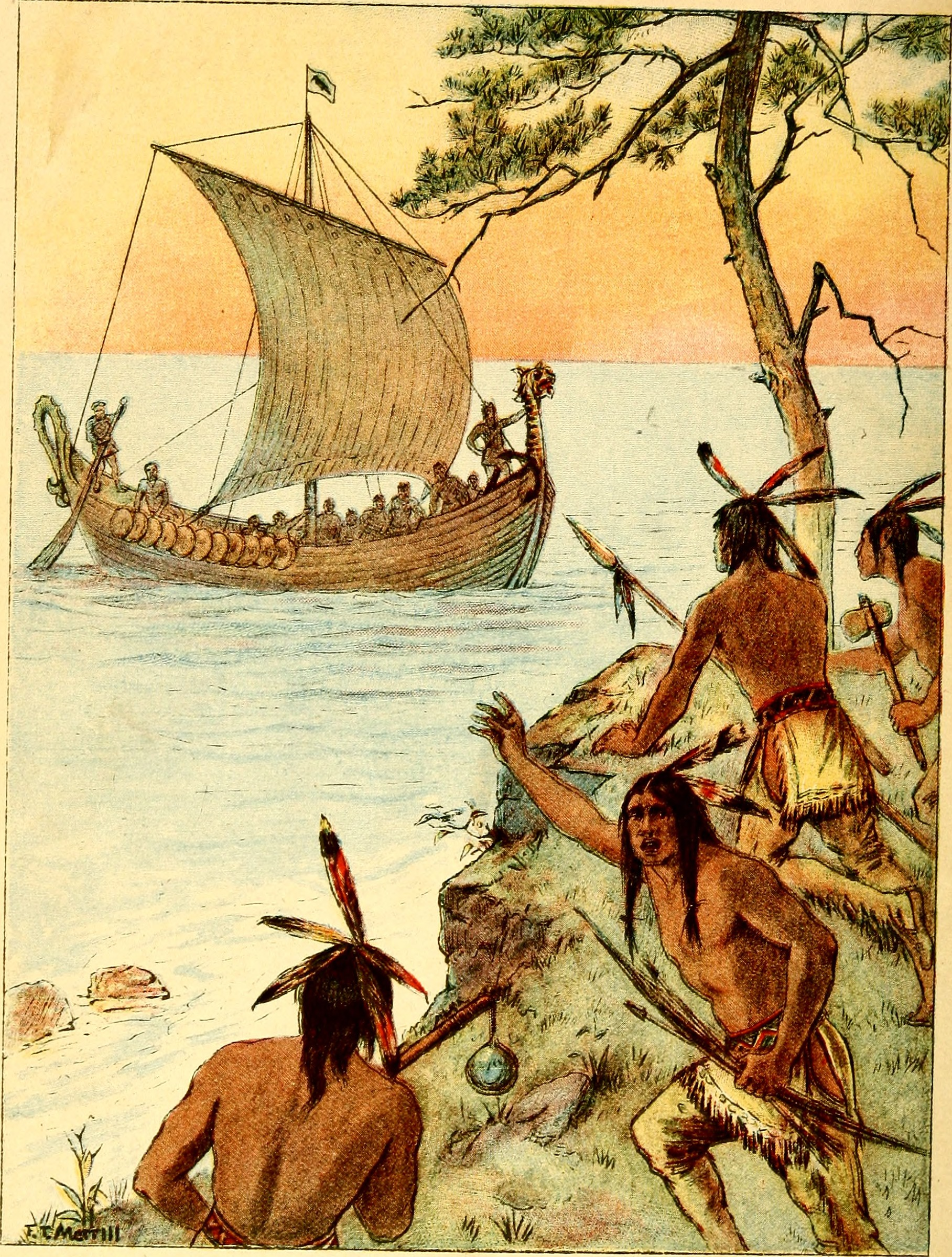 Title: America's story for America's children Year: 1900 (1900s) Authors: Pratt-Chadwick, Mara L. (Mara Louise) Subjects: Publisher: Boston : D.C. Heath Text Appearing Before Image: ' Text Appearing After Image: AMERICAS STORY FOR AMERICAS CHILDREN BY MARA L. PRATT IN FIVE VOLUMES I. THE BEGINNERS BOOK BOSTON, U.S.A. D. C. HEATH & CO., PUBLISHERS 1900 Copyright, 1900By D. C. Heath & Co. CONTENTS Page I. The Northmen i II. Olaf and Snorri 8 III. Christopher Columbus 23 IV. Prince Montezuma 37 V. Leaping Wolf 53 VI. The Little Pueblo Prince 67 VII. Virginia Dare 83 VIII. Betty Alden 89 IX. Hans and Katrina 101 X. The Boston Boys 108 XL The Army of Two 116 XII. The Boy in Gray 121 XIII. The Boy in Blue 127 With fifty-nine illustrationsfour of which are in color Americas Story for Americas Children I. THE NORTHMEN Away up in the Northland,where the ice and snownever melt, lived littlePrince Eric. He did not live in apalace, as the princes infairy stories do. In thesummer he lived in a huton the hillside; and in thewinter he lived in a cavein the mountains. Eric liked the winter.For then the men builtroaring fires in the caves,and sat and told wonder- From the statue by Miss A.ful StOrieSamericasstoryfor00prat